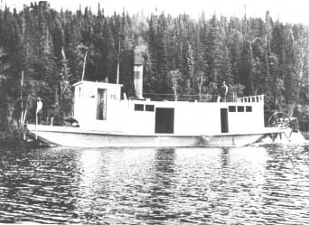 The Ross Navigation company's steam sternwheeler S.S. Tonopah hauled ore barges from Mandy Mine, down Schist Creek, to Lake Athapapuskow. Tonopah means "wind" in Cree.